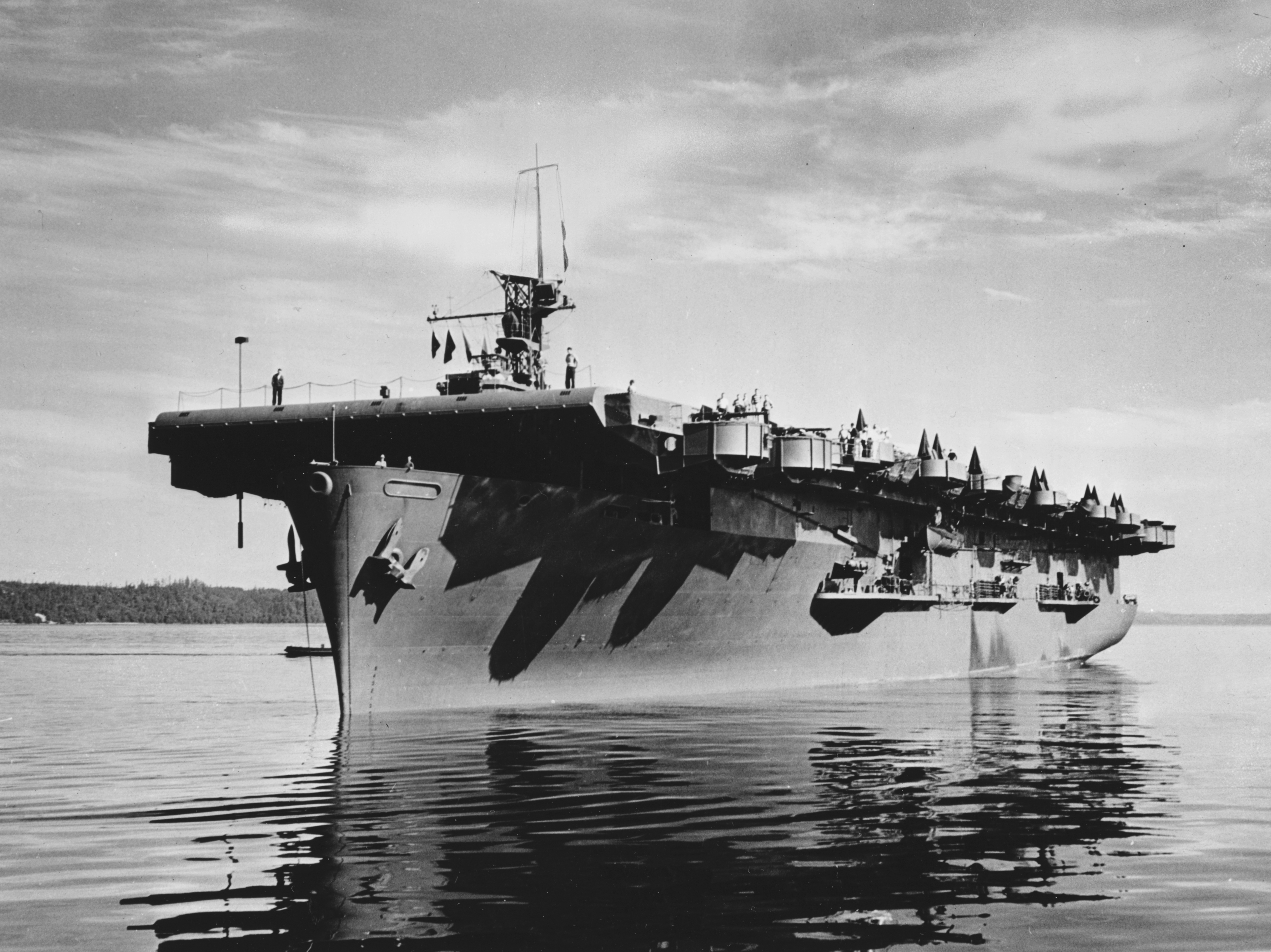 The U.S. Navy escort carrier USS Casablanca (ACV-55) in the Puget Sound, Washington (USA), circa in July 1943, at about the time she was commissioned. Note that radar antennas have been deleted from this photo due to wartime censorship. She was redesignated CVE-55 on 15 July 1943.